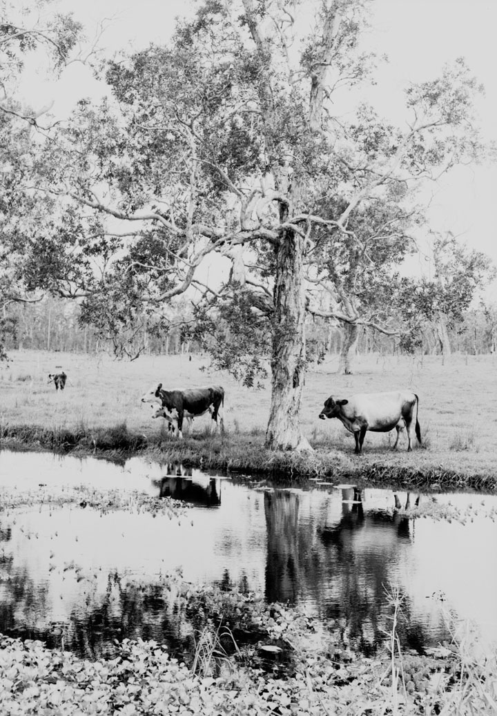 Westaways' cattle property, Meridan Plains, Caloundra.